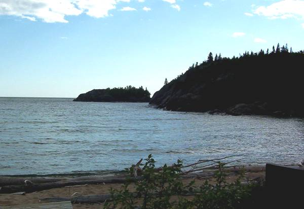 Horseshoe Bay on Lake Superior, Pukaskwa National Park, Ontario, Canada My own photo